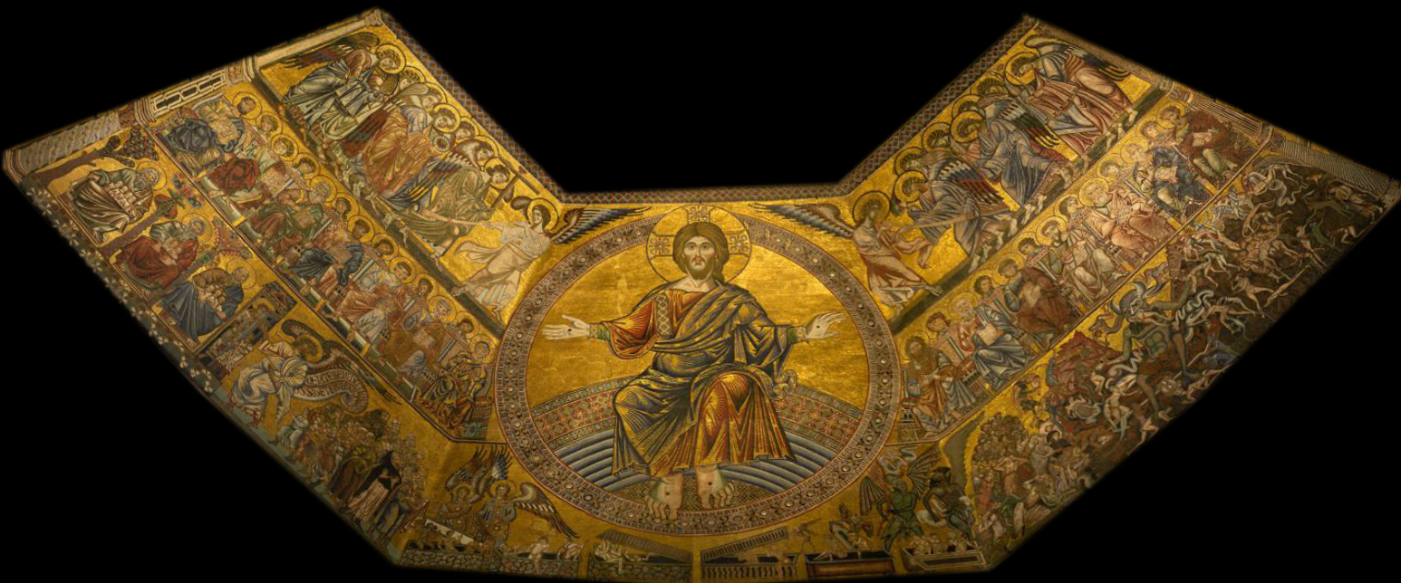 The mosaic ceiling of the Baptistery San Giovanni in Florece in total view (Stitched from 20 images, exif from one image)